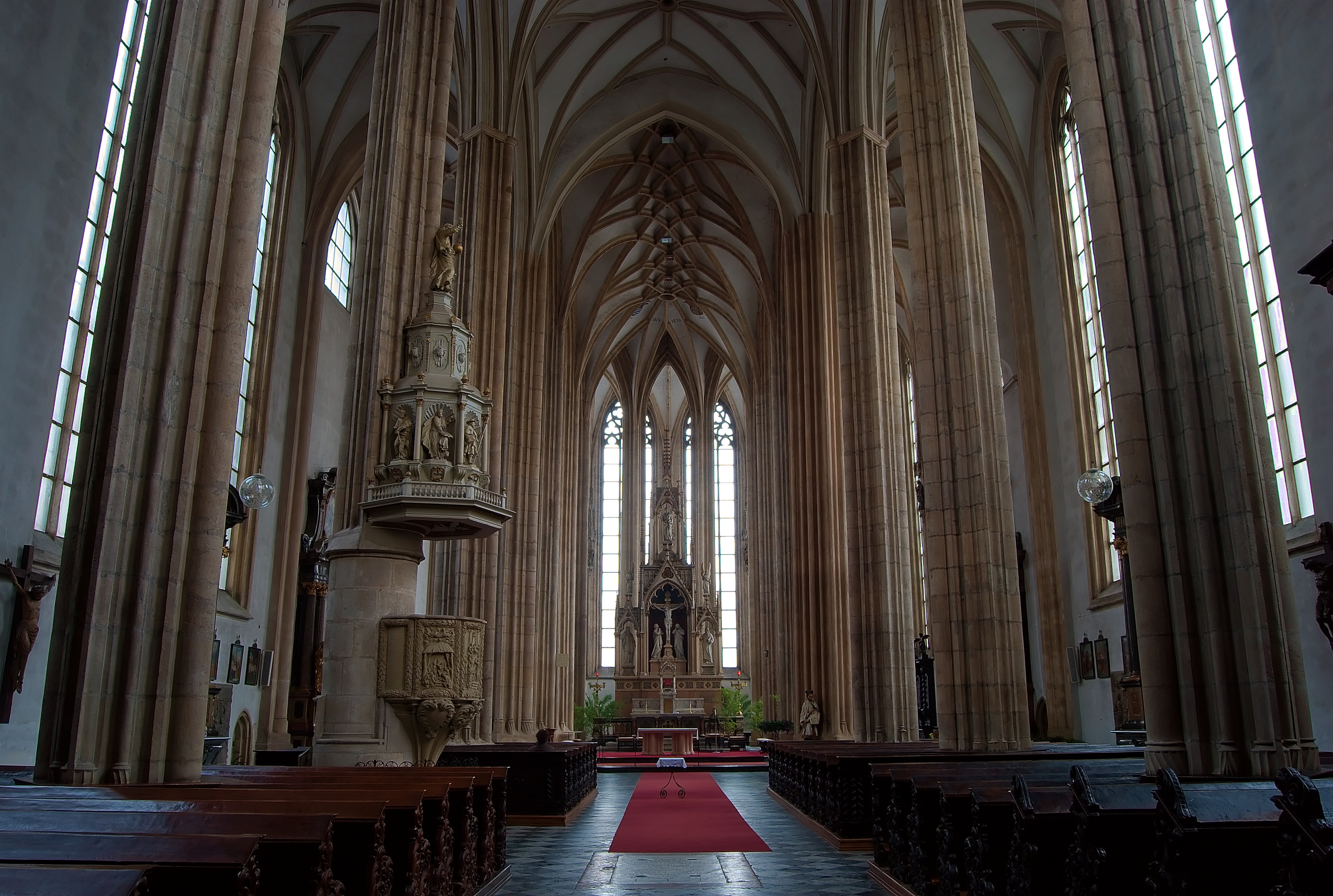 Interior of St James Church in Brno, Czech Republic